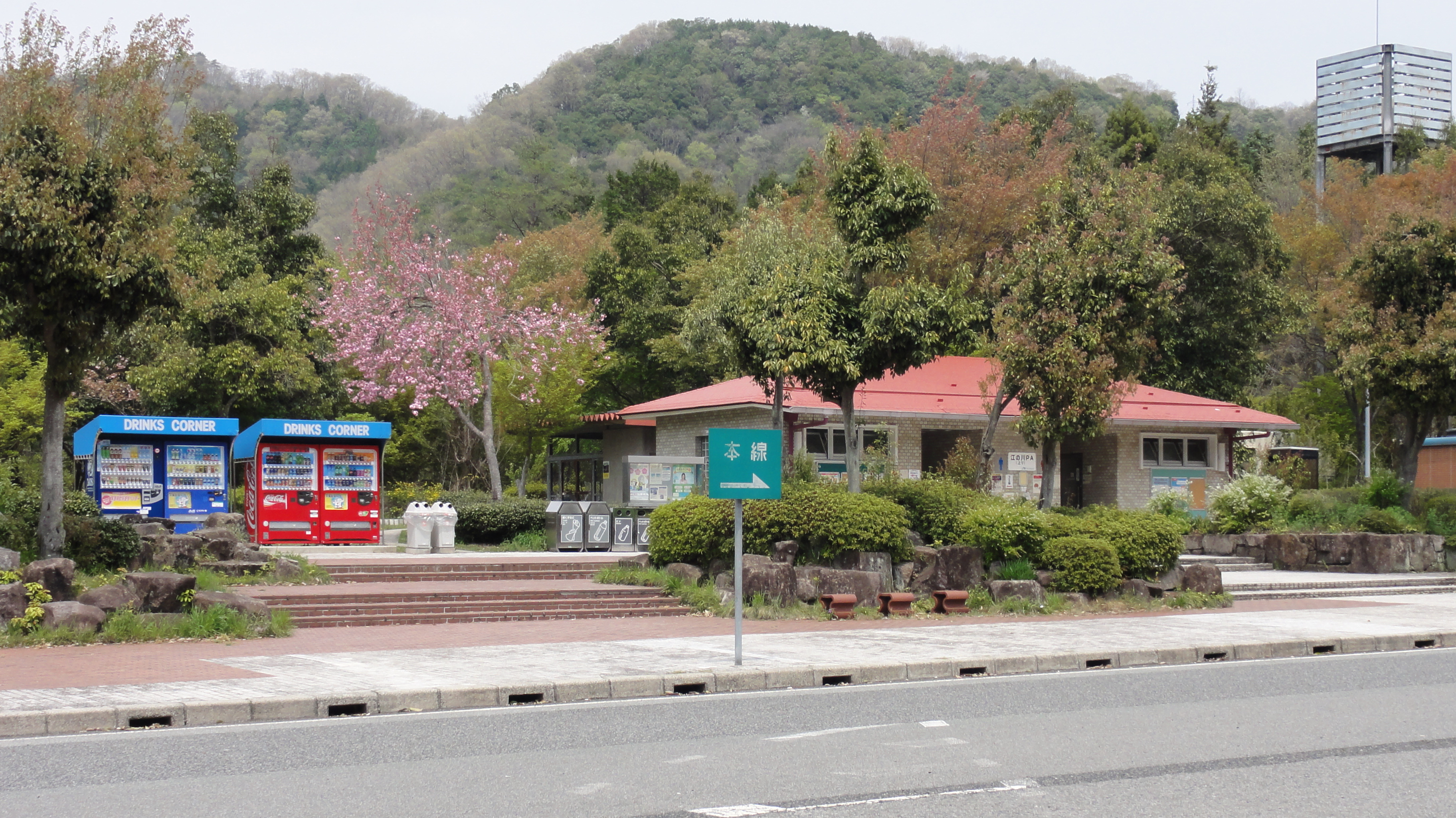 Gounokawa Parking Area,Hiroshima prefecture,Japan